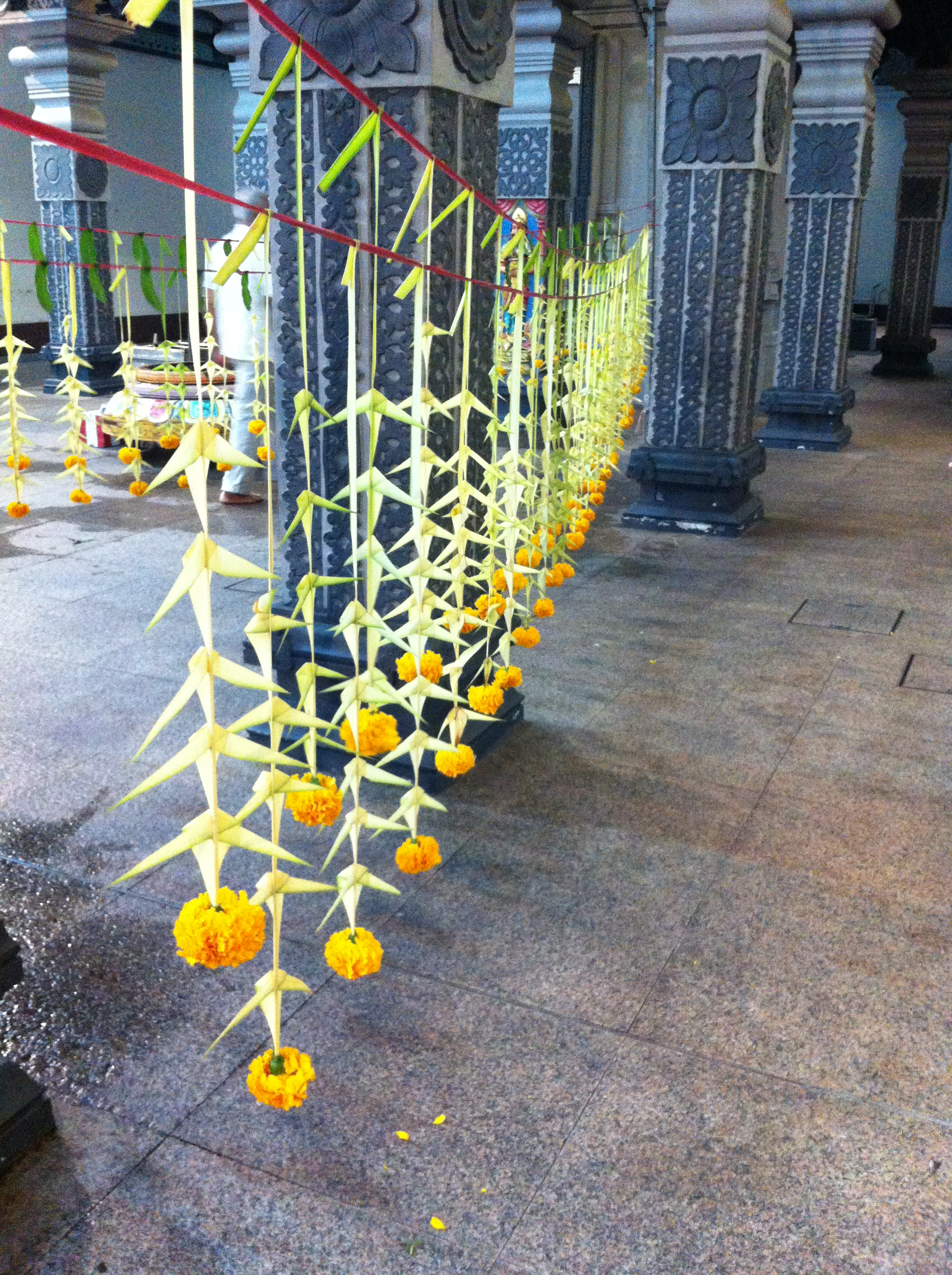 Thoranam decoration in a Temple